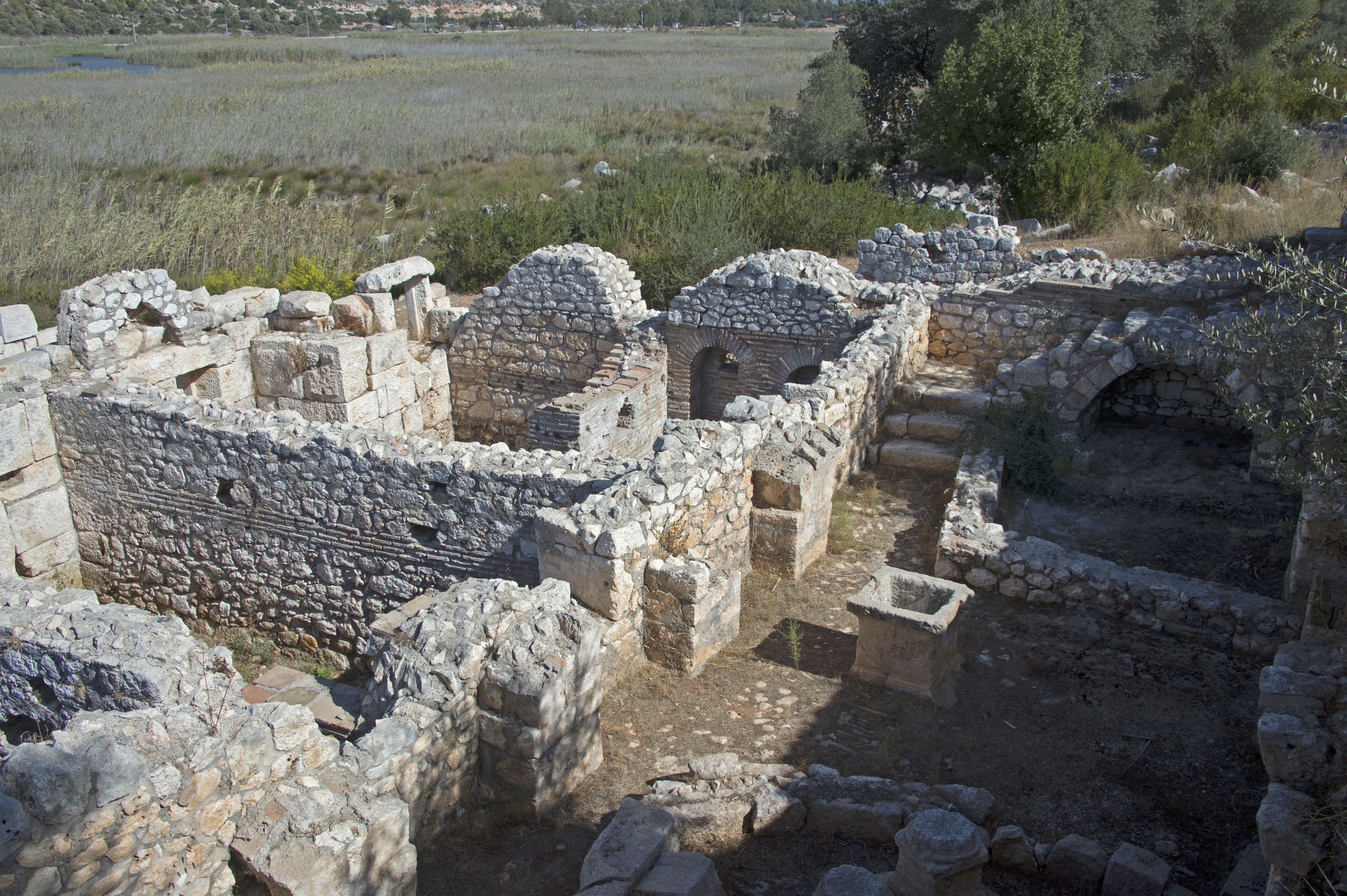 It was not indicated what precisely were the buildings at the edge of the river. Maybe they were the sub-structures of higher buildings, maybe of rather low quays. The area is brightened by some reconstructed ships, some equipment for hauling and such, all made of wood. The former harbour area of Myra (now Demre) have been opened for visitors and provide some interesting insights in ancient harbours, complete with reconstructed ships, utilities, storage, and a number of identified buildings, amongst them churches and a synagogue. Notices and a good city plan show identified buildings, and name them with simple names such as “Church A”. More information, however, is hard to find. There are some reports of excavations, but they’re all over the web and often in Turkish. So most pictures in this series, though they show many of the displays, must do without further information.